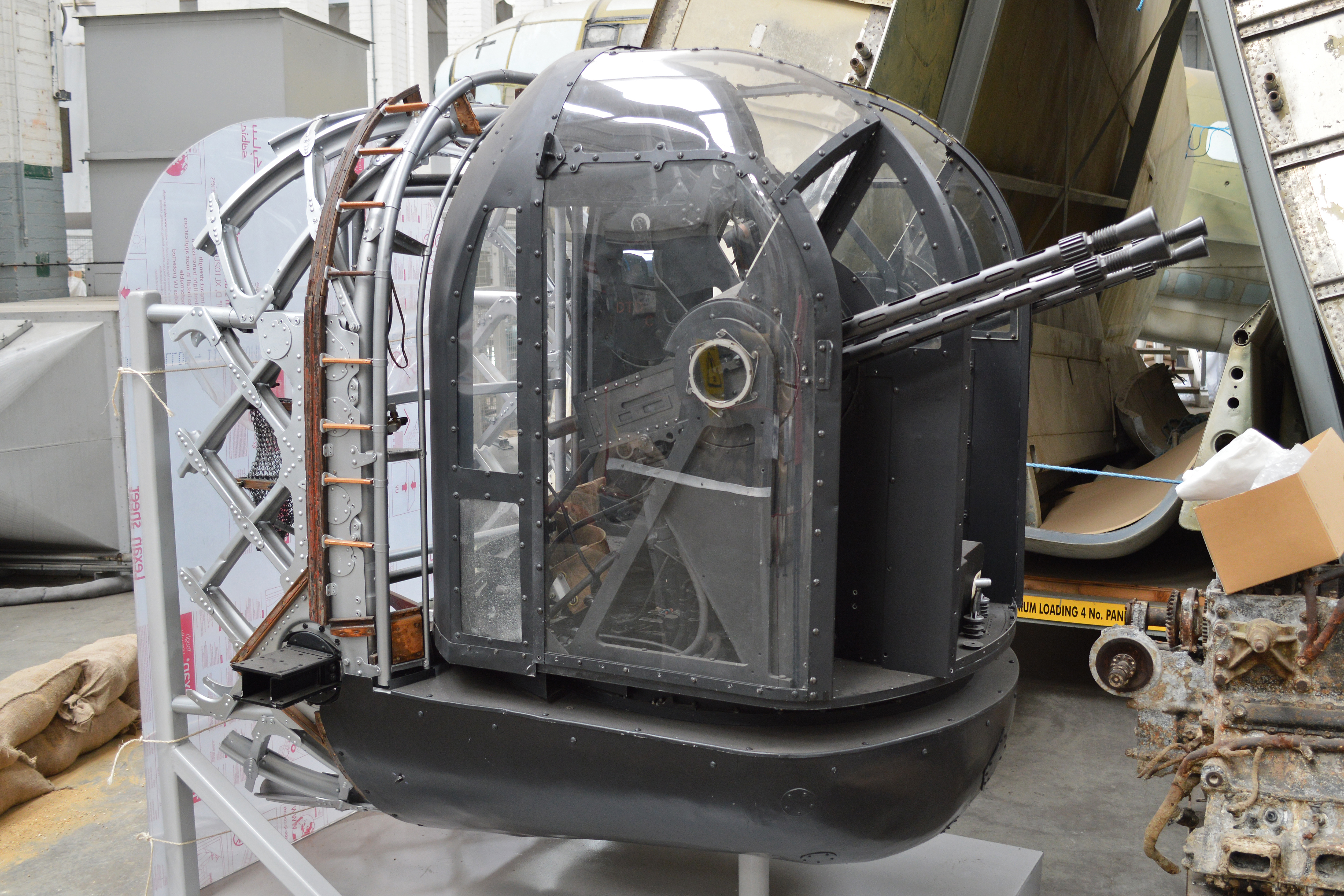 This is an FN20 tail turret from a Vickers Wellington bomber and is still mounted in the extreme rear of a Wellington fuselage, as can be seen by the visible geodetic structure. Recently restored, it is seen in Hangar 5 before going on display. Imperial War Museum, Duxford. 14-7-2013